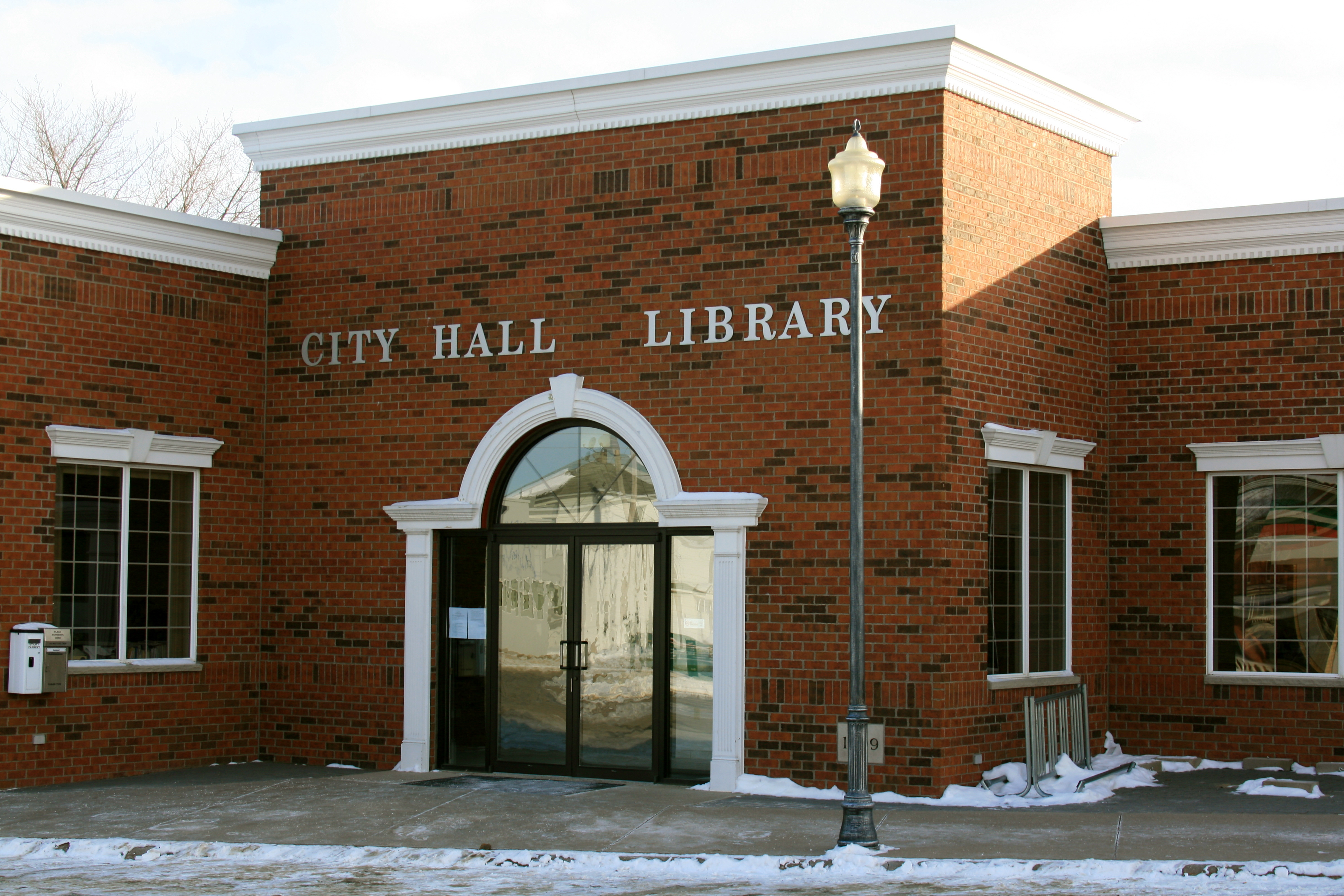 City Hall and Library of Preston, Iowa